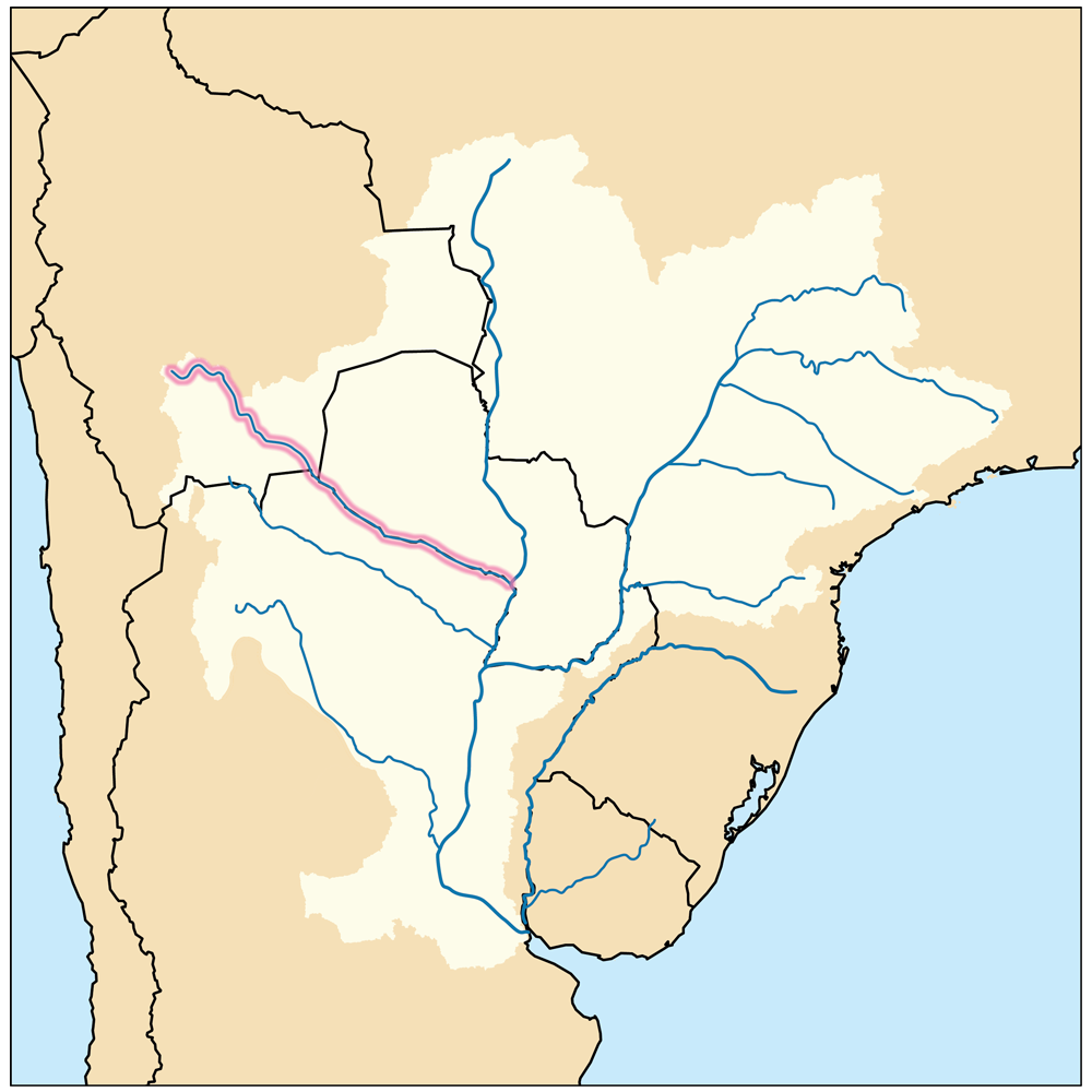 This is a map showing the Pilcomayo River highlighted within the Paraná River drainage basin.